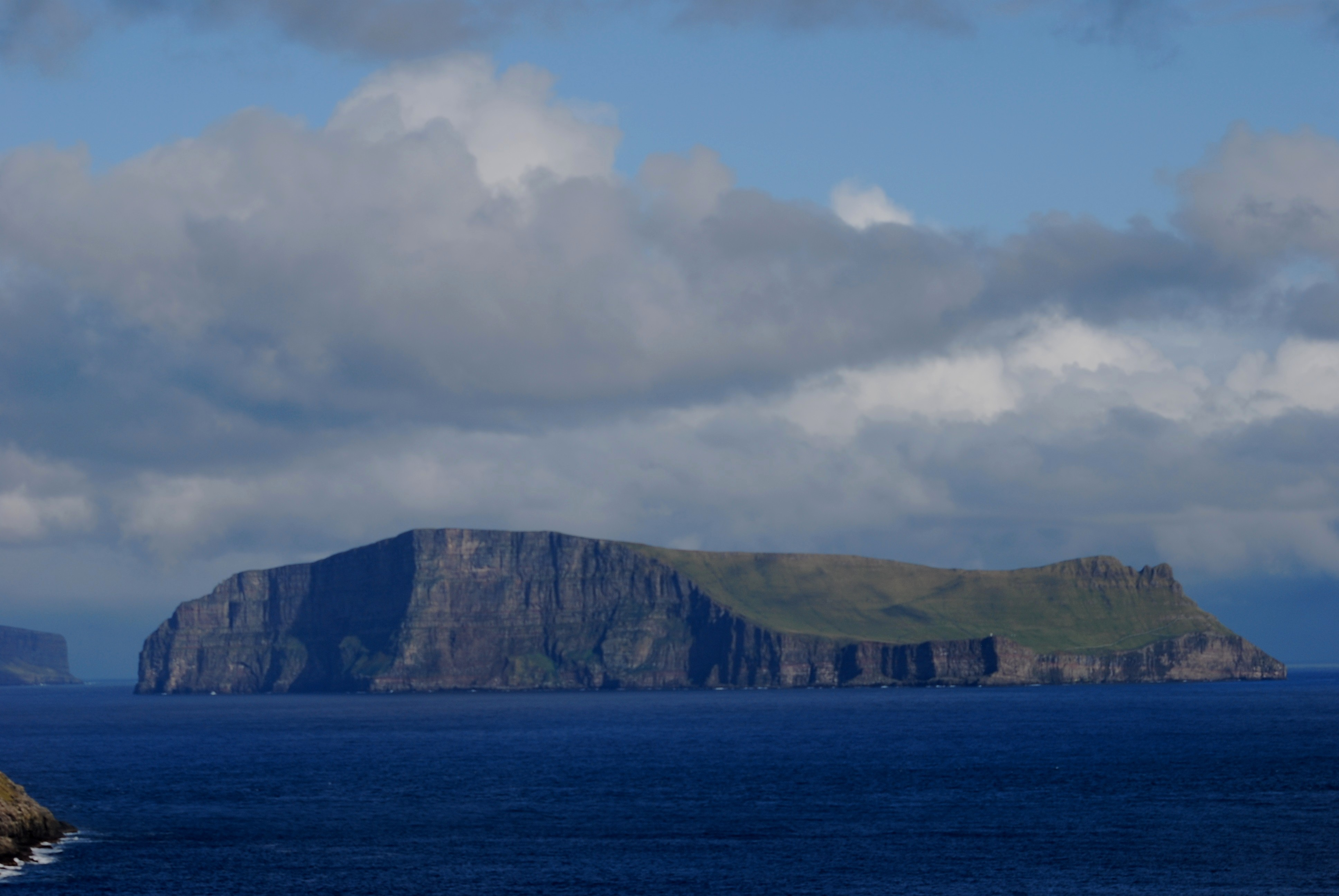 Stóra Dímun, Faroe Islands